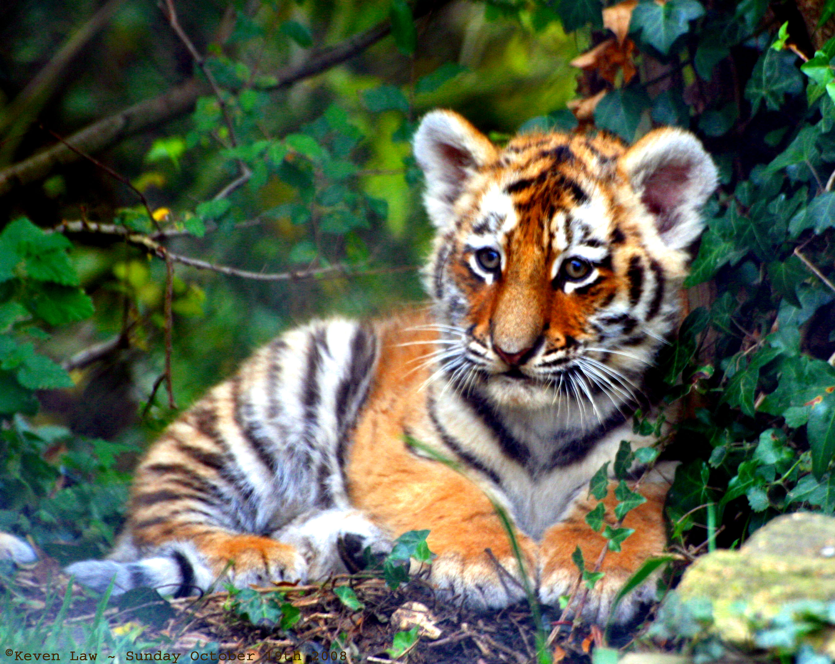 Tiger Cub - Howletts Wildlife Park, Kent, England - Sunday October 19th 2008.